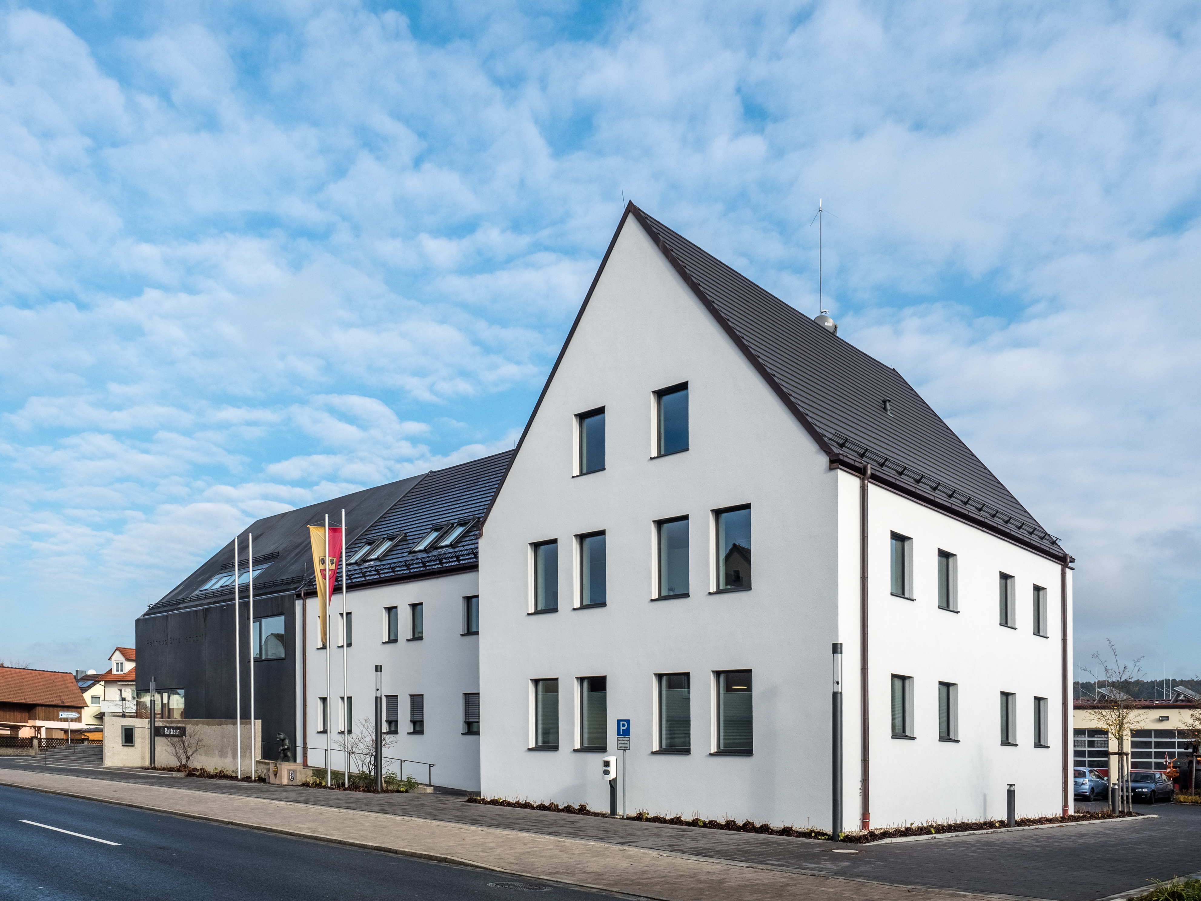 Town hall in Strullendorf near Bamberg